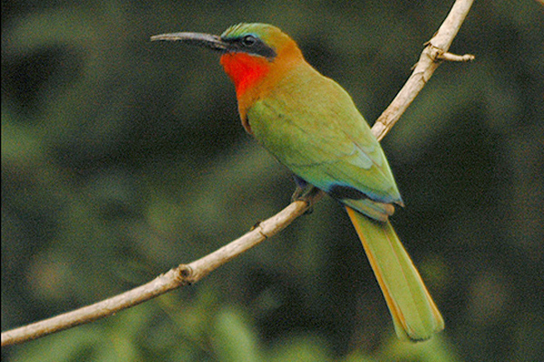 Uganda Red-throated Bee-eater, Merops bulocki